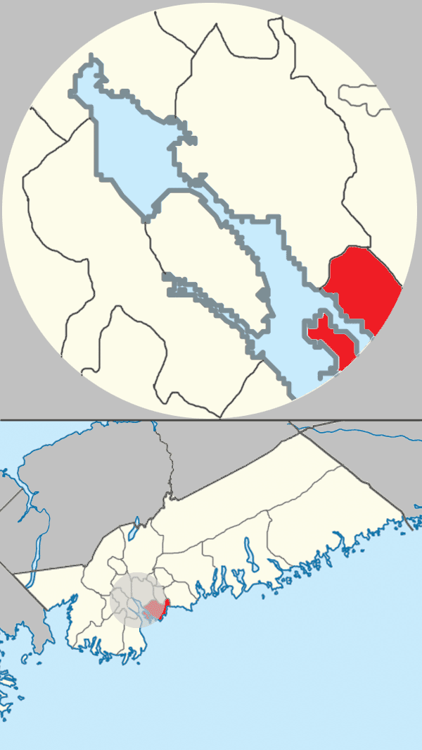 Updated map of Eastern Passage planning area in Halifax, Nova Scotia to standard colours, higher resolution, using